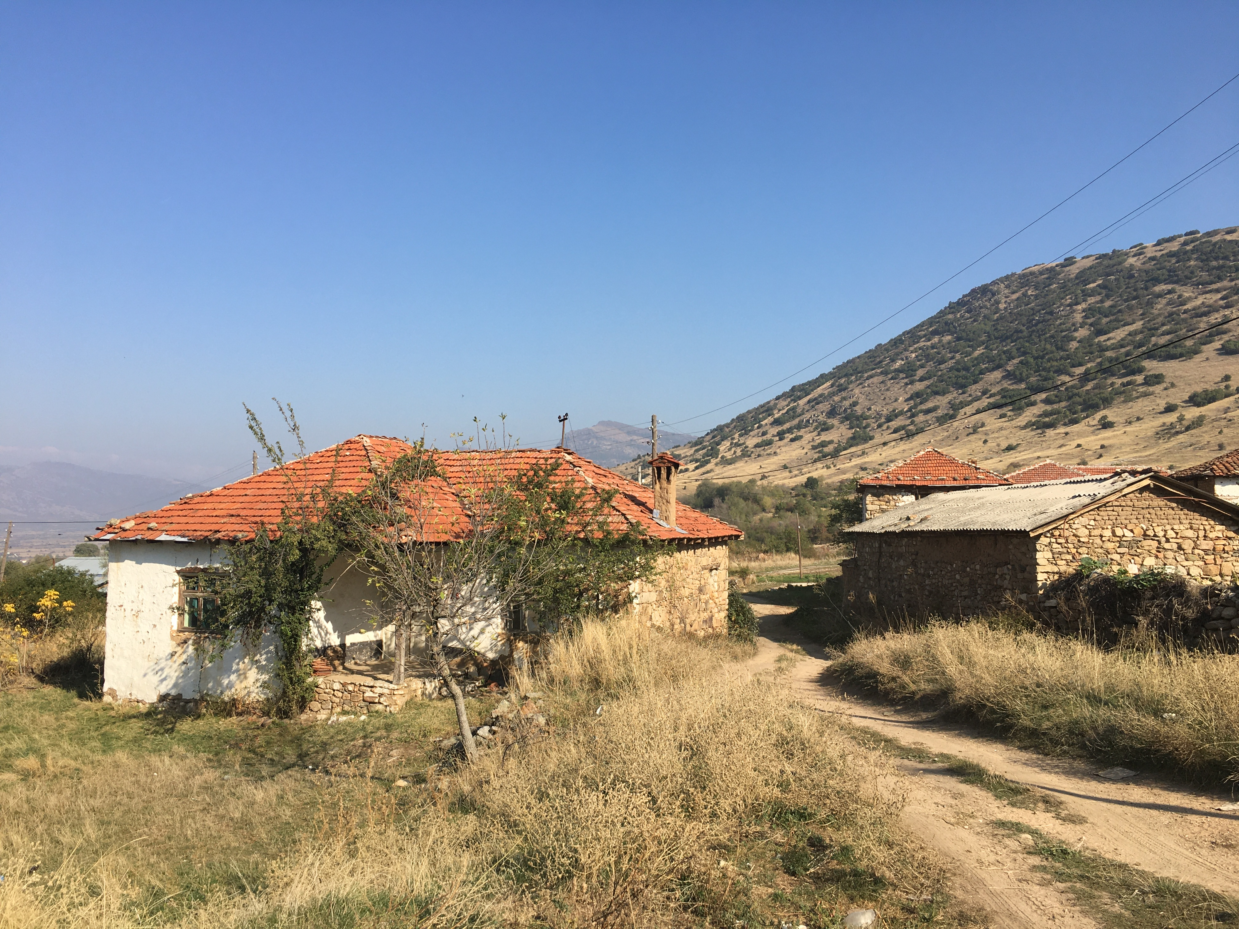 Houses in the village of Gorno Selo